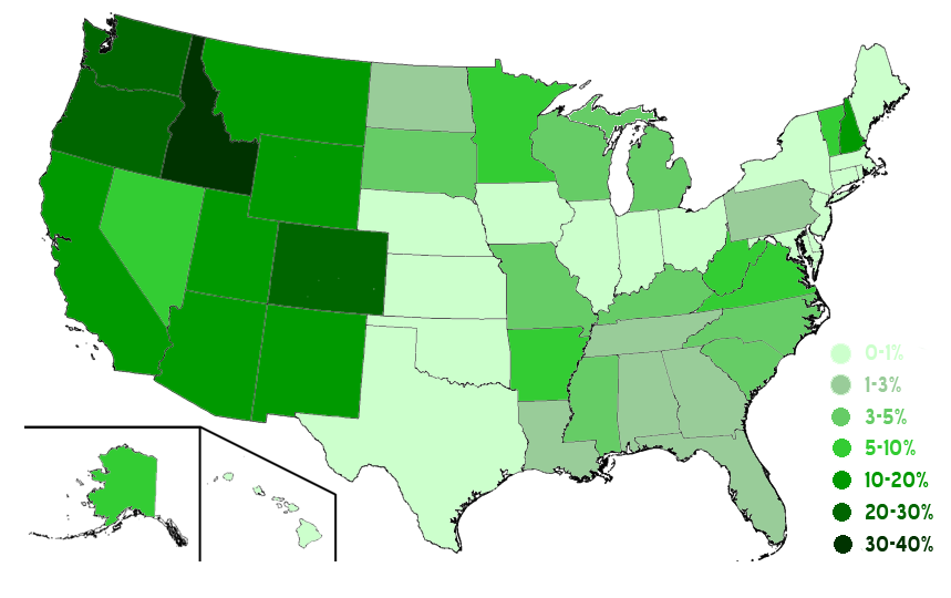 National Forest Service lands as a percentage of total area by state. Data from